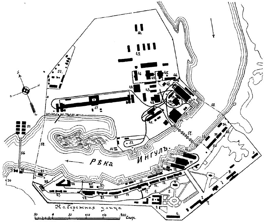 Nikolaevskoye admiralty